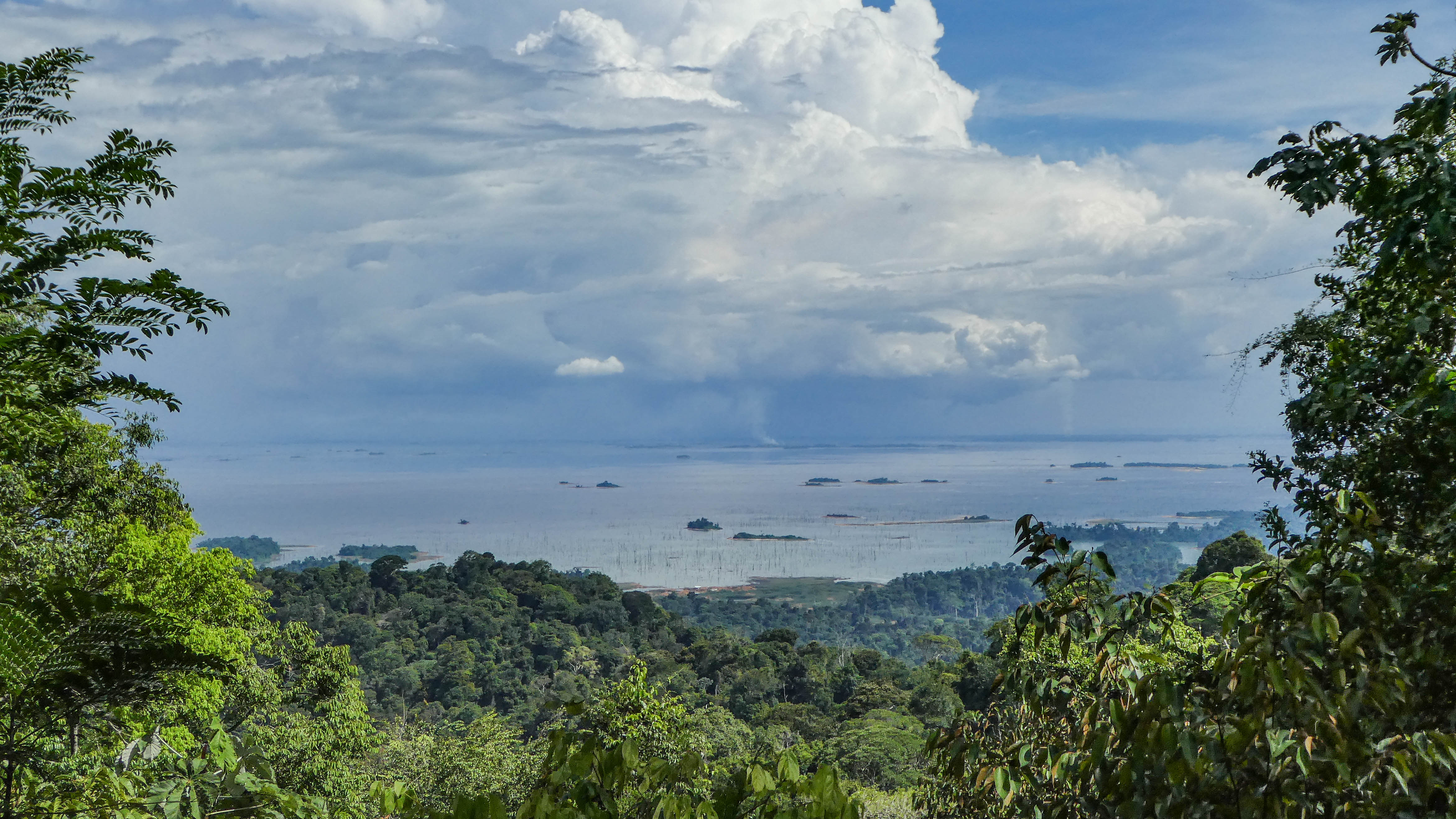 View of the Brokopondo Reservoir